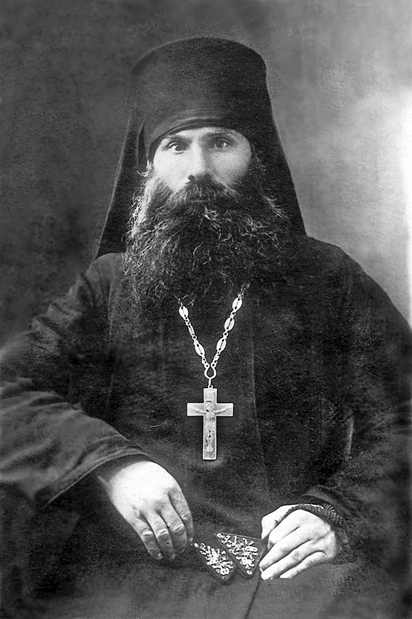 Иеромонах Серафим (Шахмуть) в 1930-е гг. Архив Жировичского монастыря